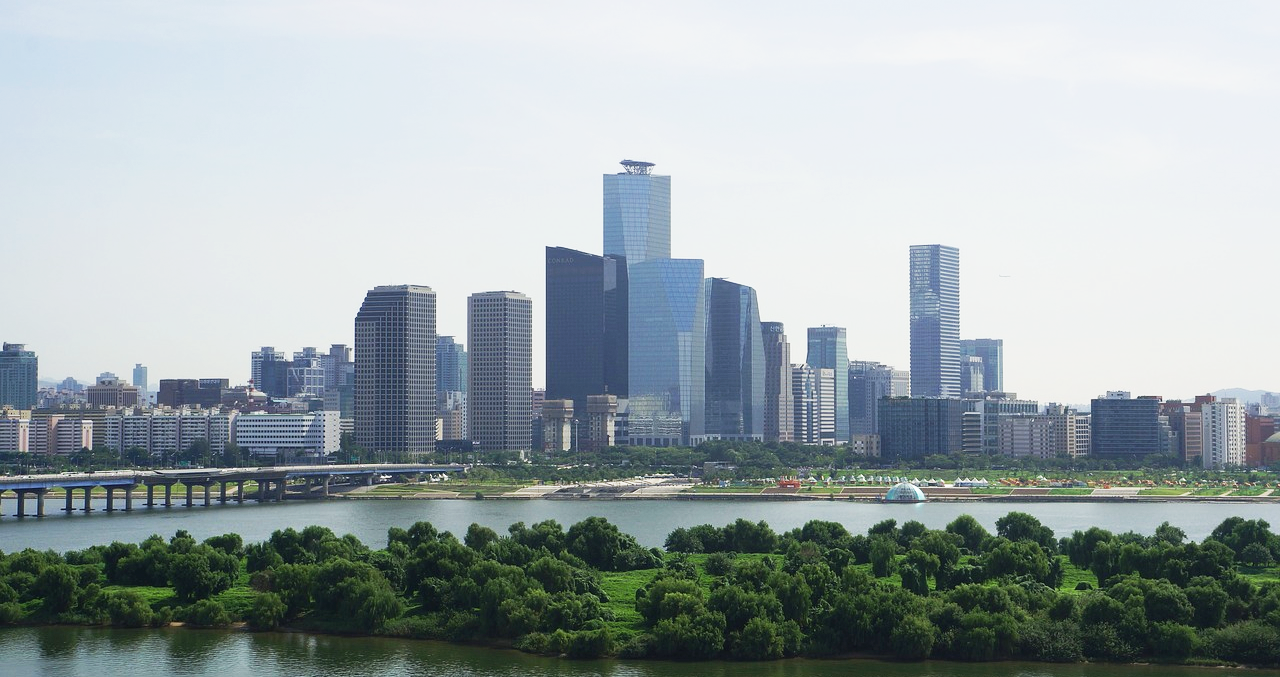 Yeouido Skyline